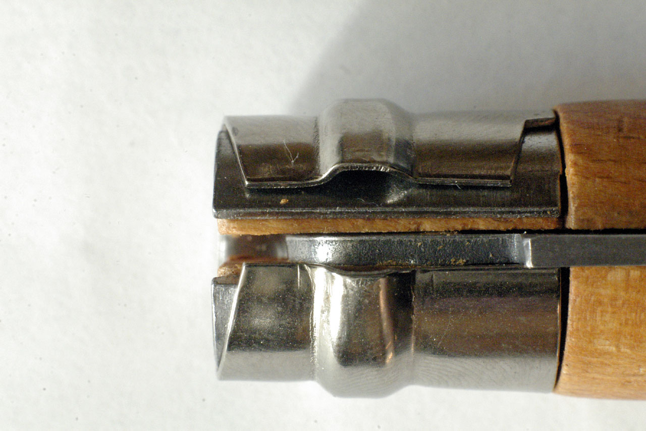 Opinel-Pocket-Knife closed and safety-ring opened